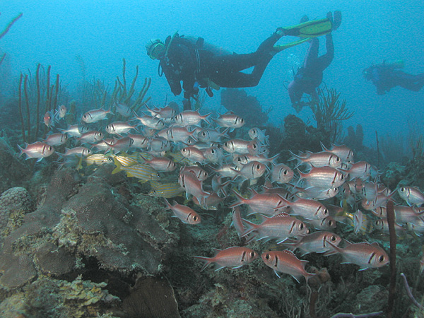 Scuba diver and blackbar soldierfish, Salt River wall near Galen's Cove, St. Croix. Image taken by Clark Anderson/Aquaimages.